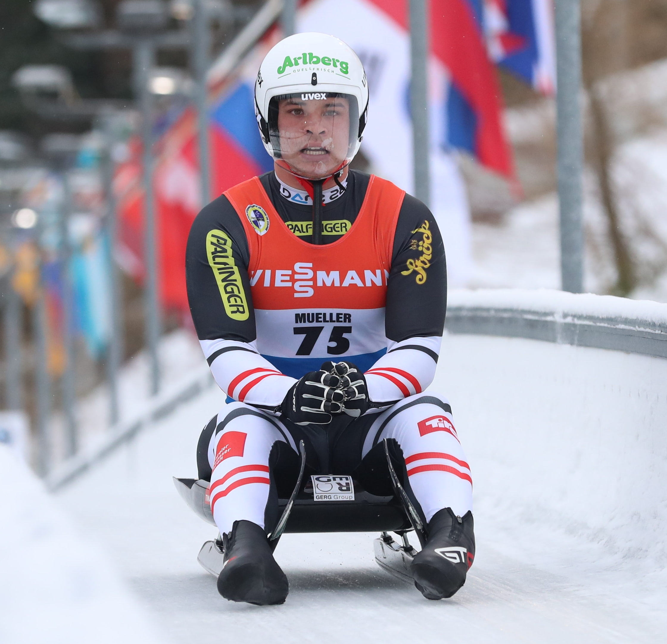 Training of the Seeding Group at the Altenberg Luge World Cup 2018/19